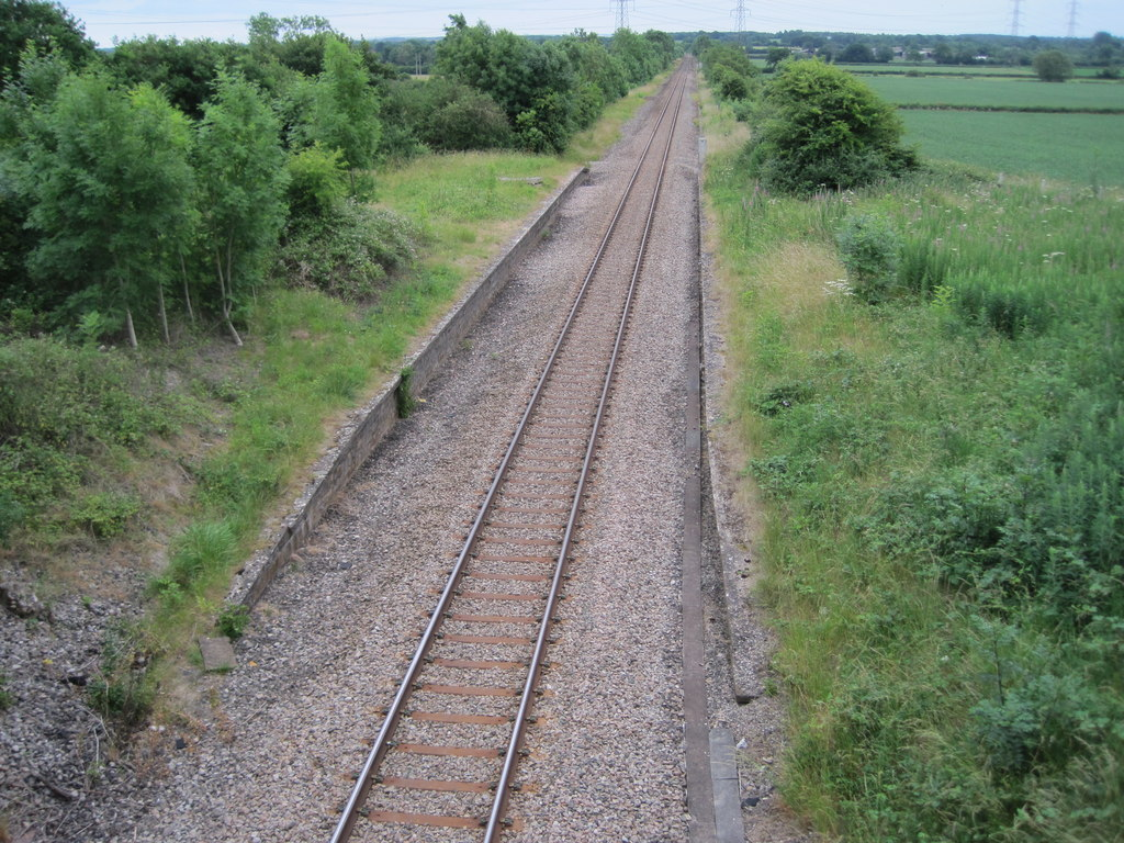 Oaksey Halt railway station (site)Opened in 1929 on the Great Western Railway's line from Swindon to Stroud, this halt closed in 1964. Four years later, the line was singled. In 2013 it was redoubled. View south east towards Minety and Swindon at the time the line was single. When it was redoubled, the scene changed somewhat - see SU0093 : Oaksey Halt railway station (site), Wiltshire for a 2018 view.